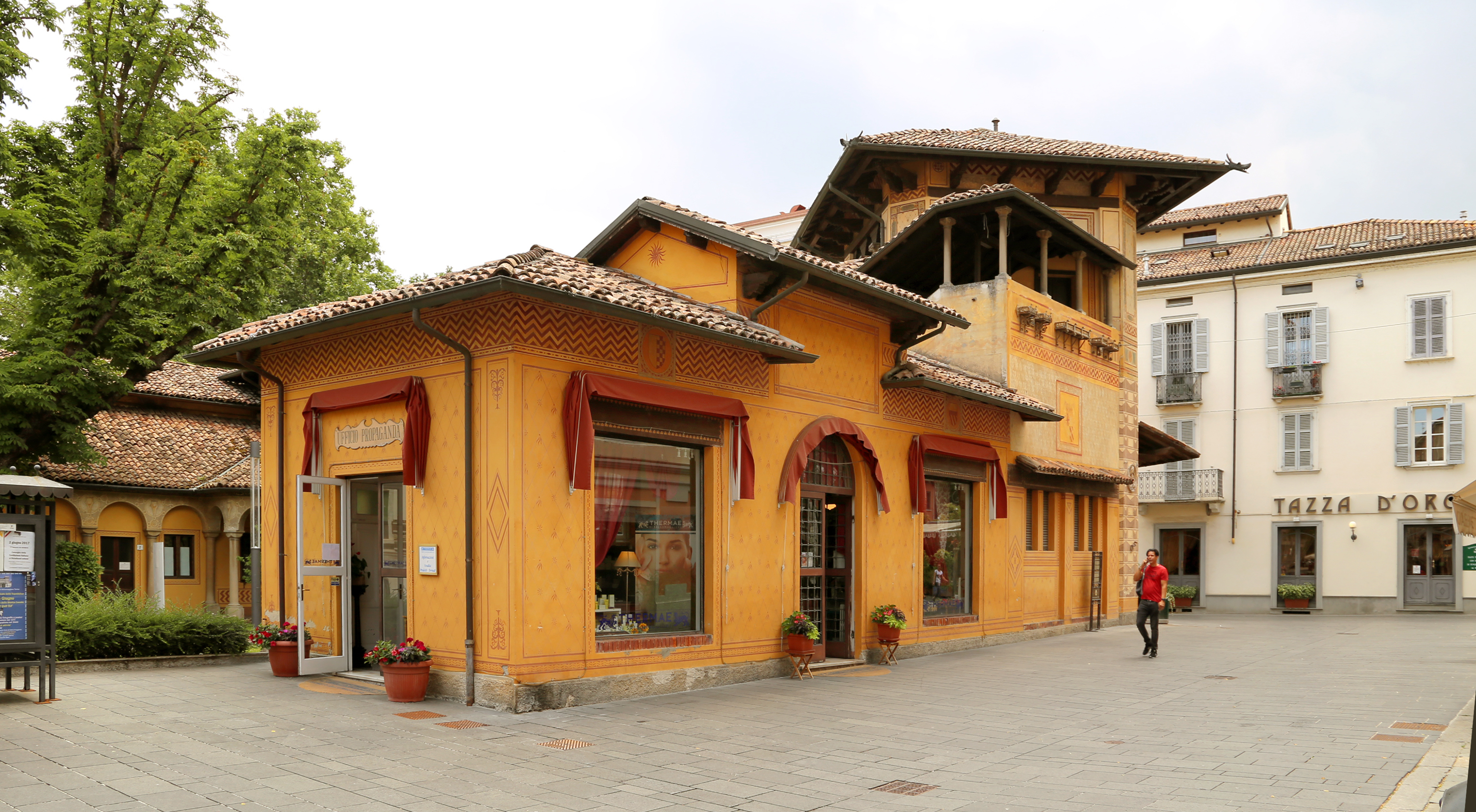 Buildings in Salsomaggiore Terme